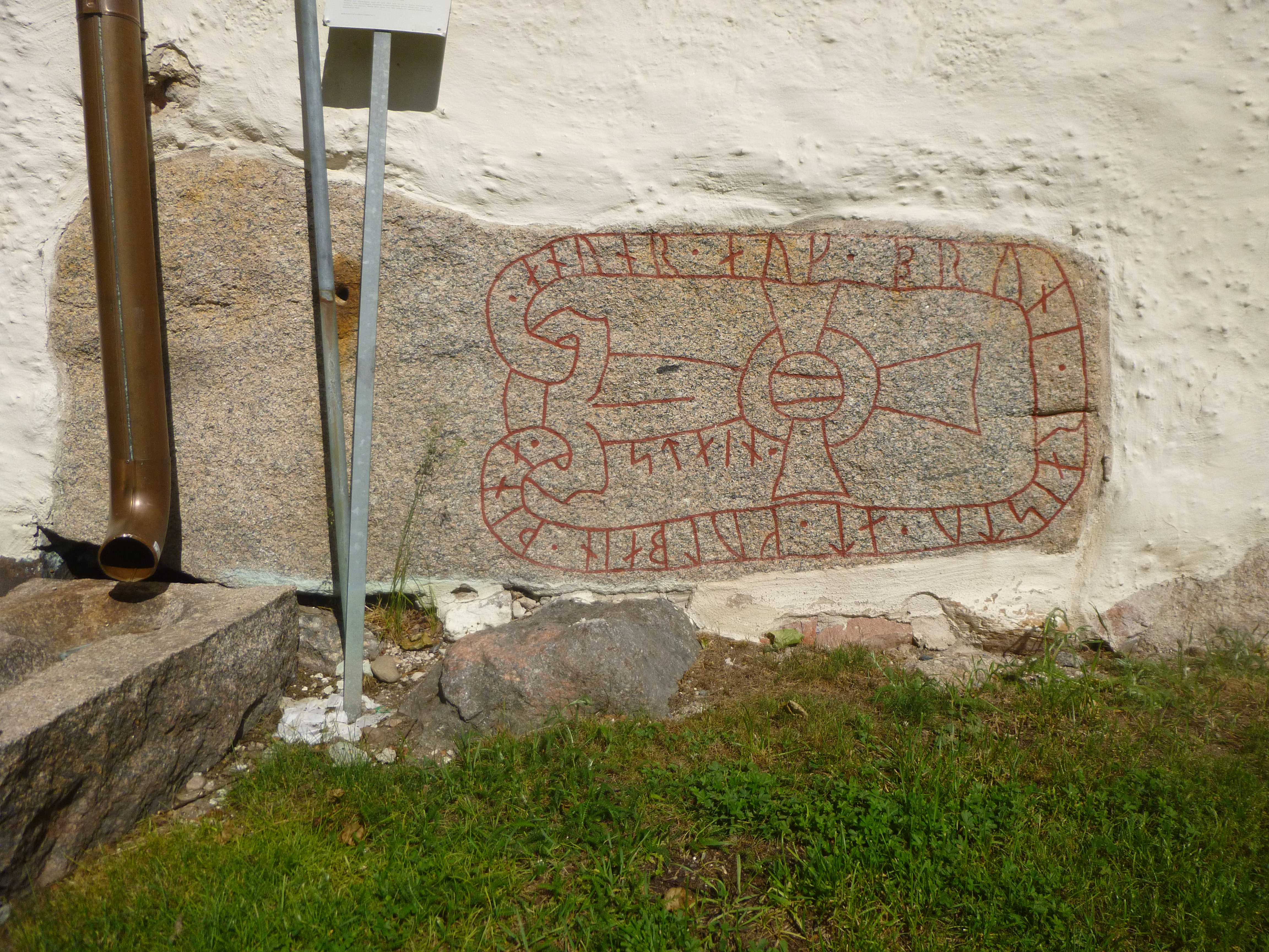 Runestone Sö Fv1958;242. It is placed horizontally in the church wall